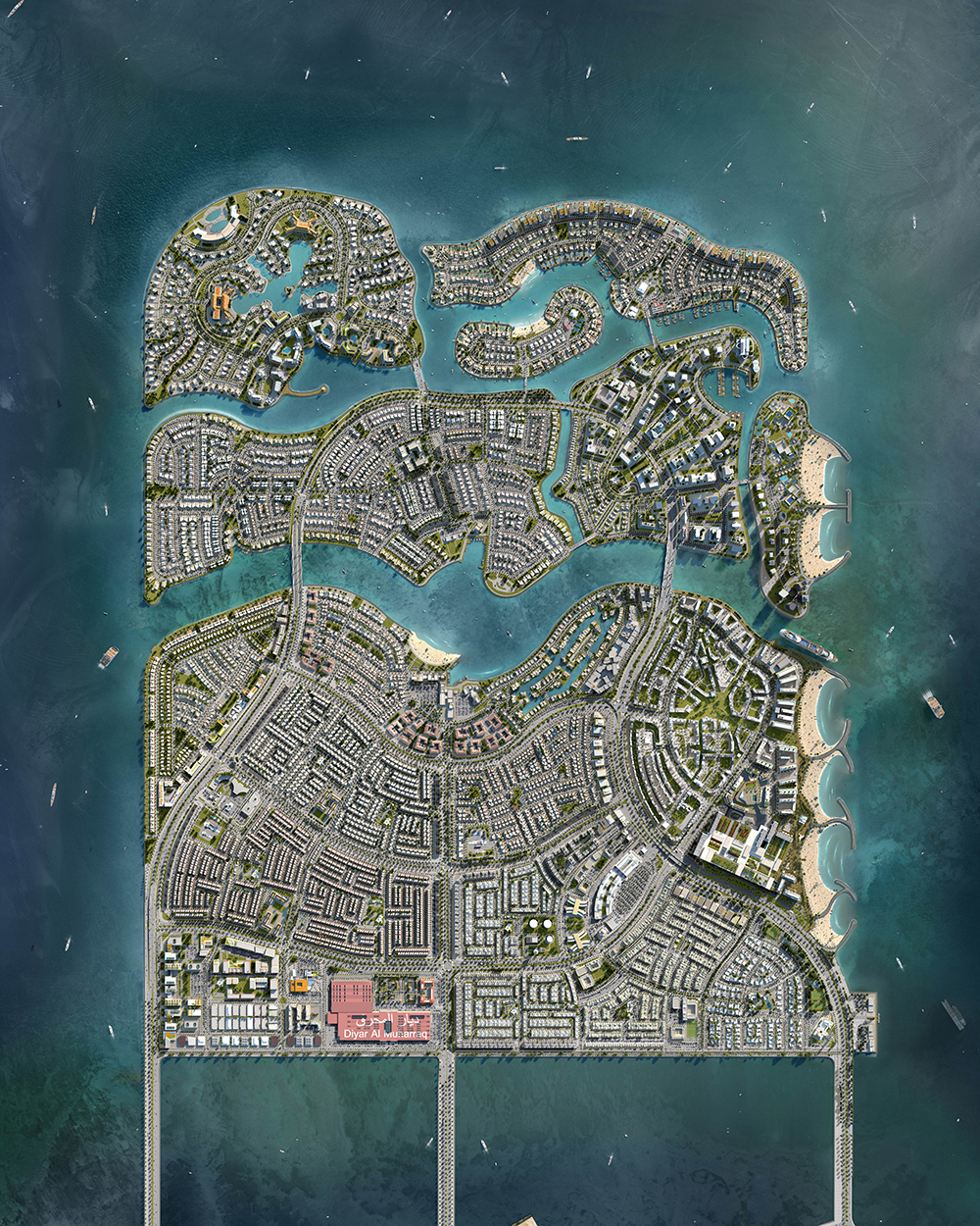 The Master Plan of Diyar Al Muharraq Real Estate Development Project in the Kingdom of Bahrain